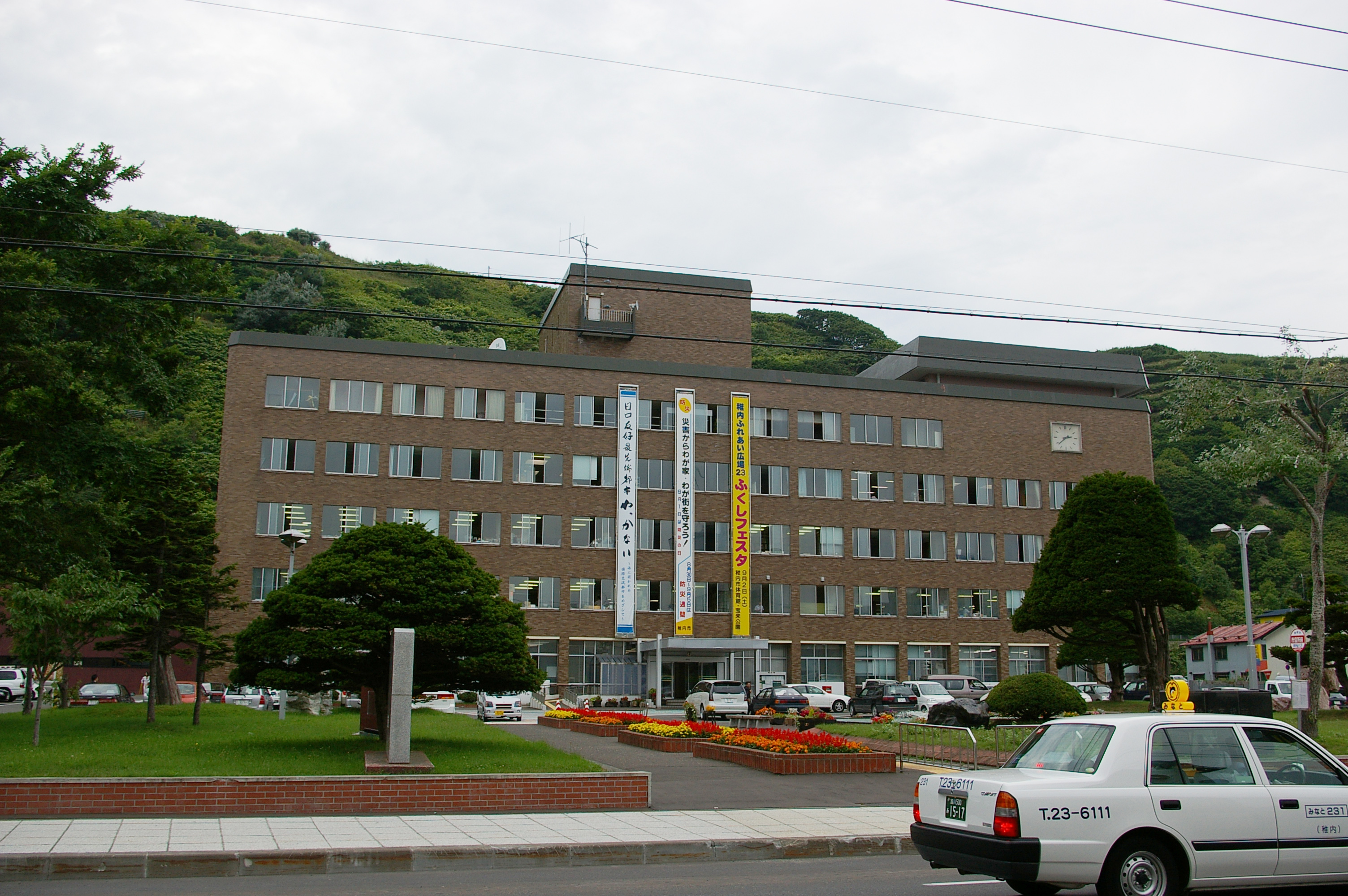 Wakkanai city office.